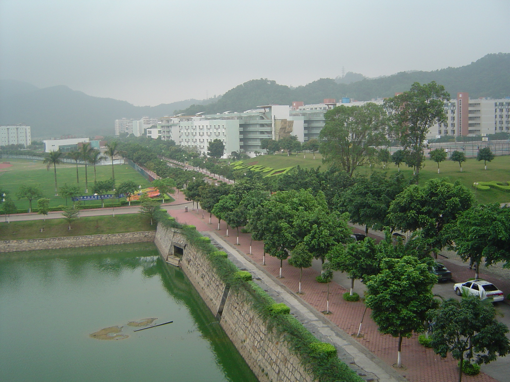 Zhuhai Campus of Sun Yat-sen University (中山大学) in Zhuhai, PR China